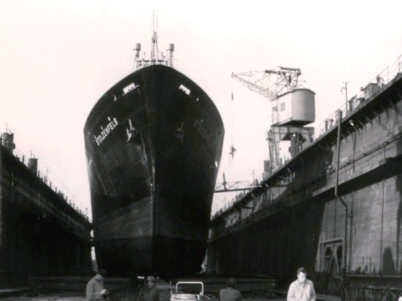 Cargo ship Stolzenfels from the DDG Hansa shipping company in the floating dock of the AG Weser shipyard, Bremen 1961